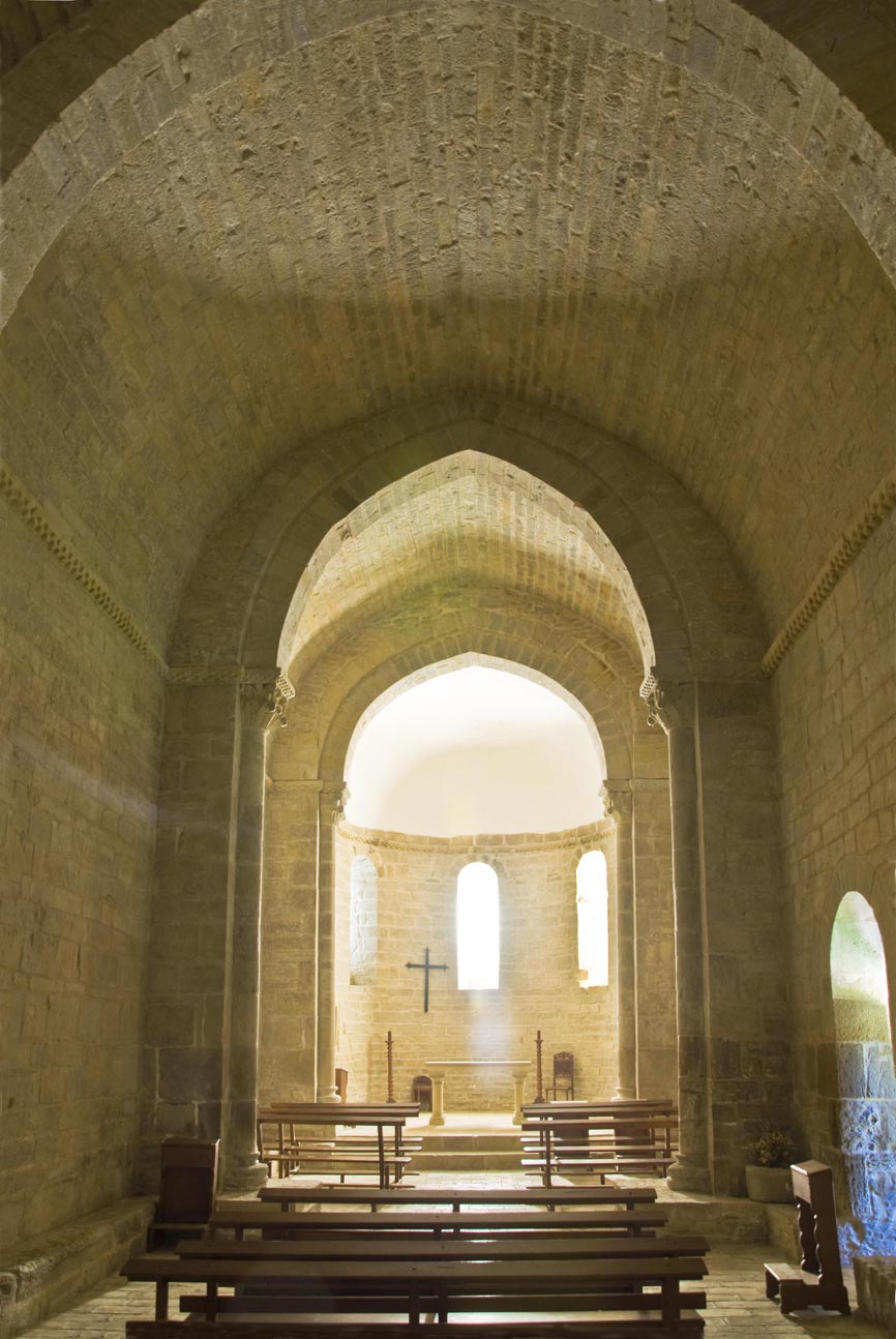 Interior of the church of San Pedro de Etxano - Olóriz, Valdorba, Navarra